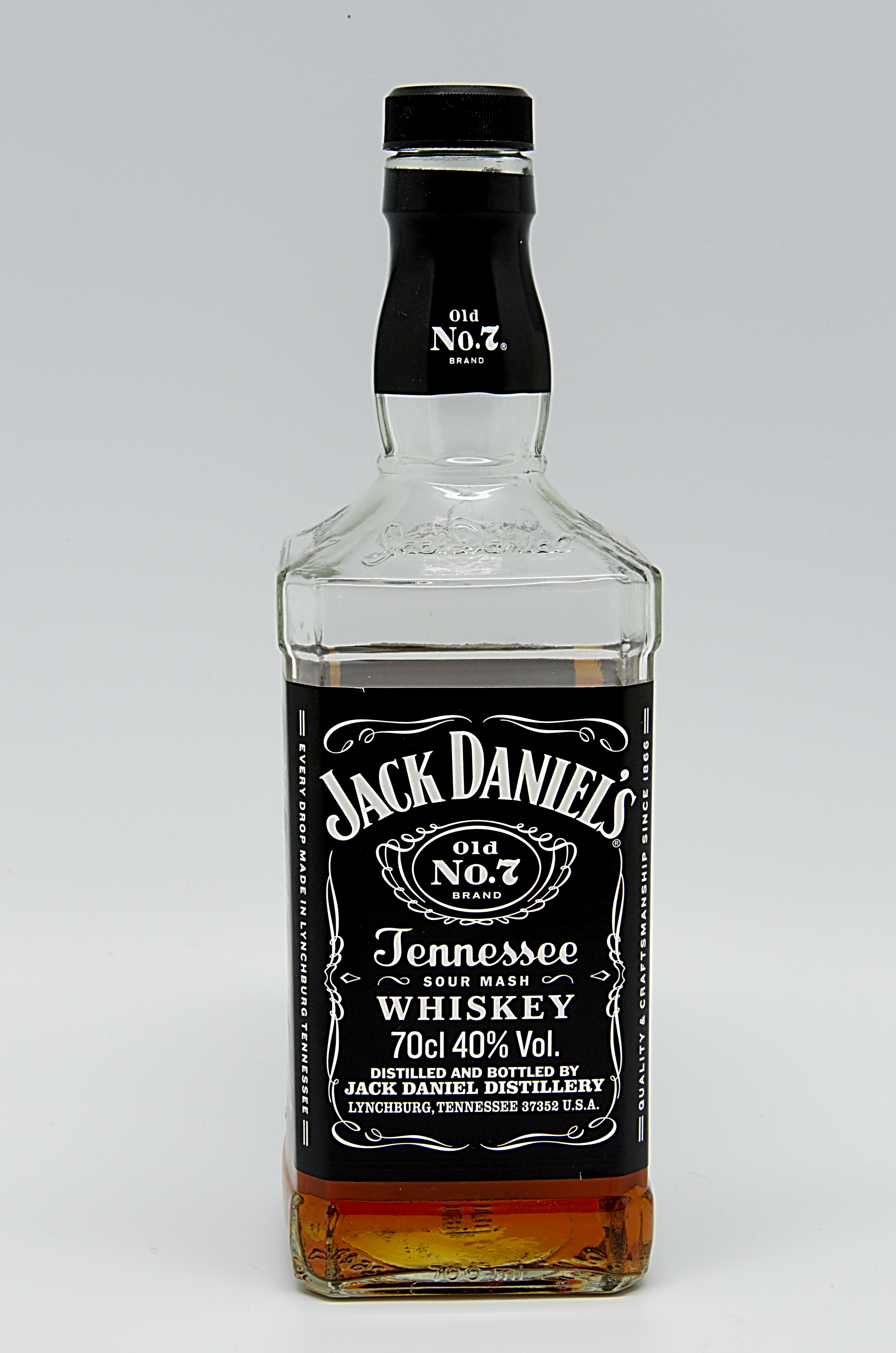 Jack Daniels bottle